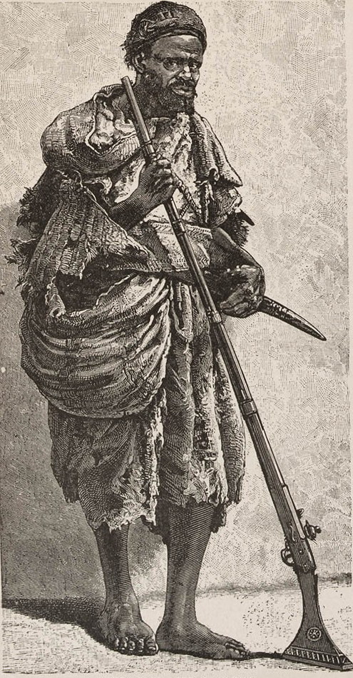 1889 illustration.